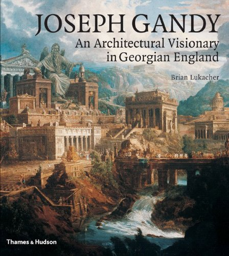 Joseph Gandy Architectural Visionary in Georgian England cover